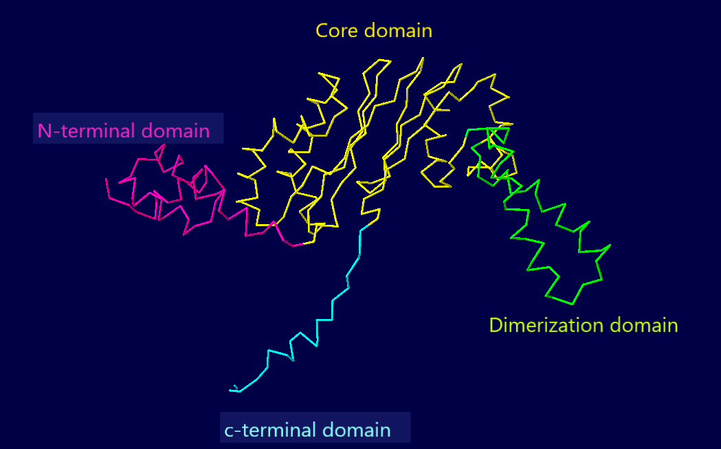 highlight the 4 structural domains of EF-Ts